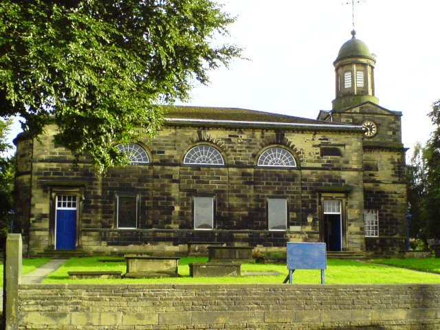 St Matthews Church, Rastrick Built in 1798. A joint Anglican/Methodist church partnership.